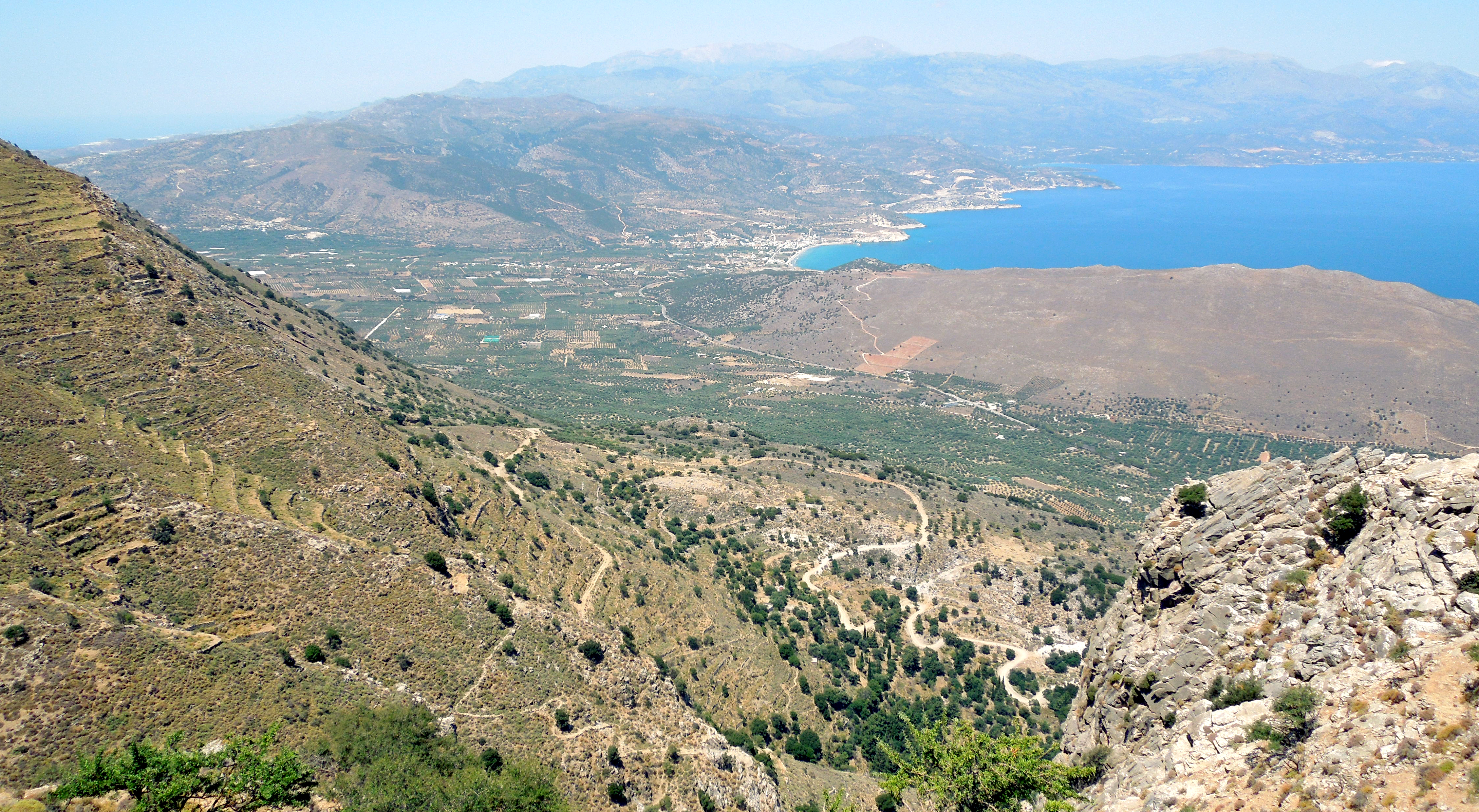 View of Kavousi Vronda, the northern Isthmus of Ierapetra, and the southern Gulf of Mirabello from the east (Kavousi Kastro) (2012).